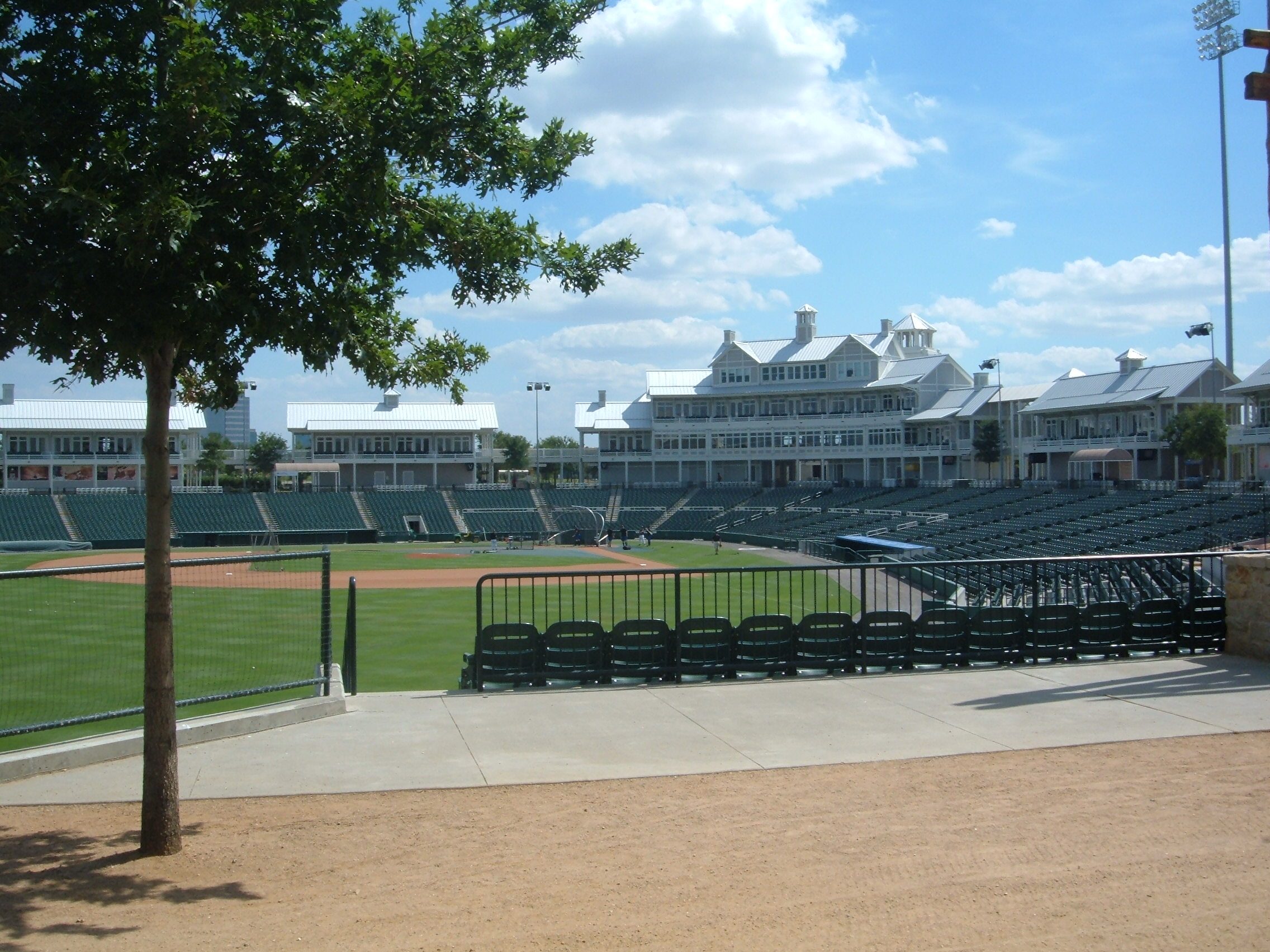 Photograph of the interior of the Dr Pepper Ballpark in Frisco, Texas taken from the sidewalk behind the left field seating area. The Frisco RoughRiders are having batting practice in this image.